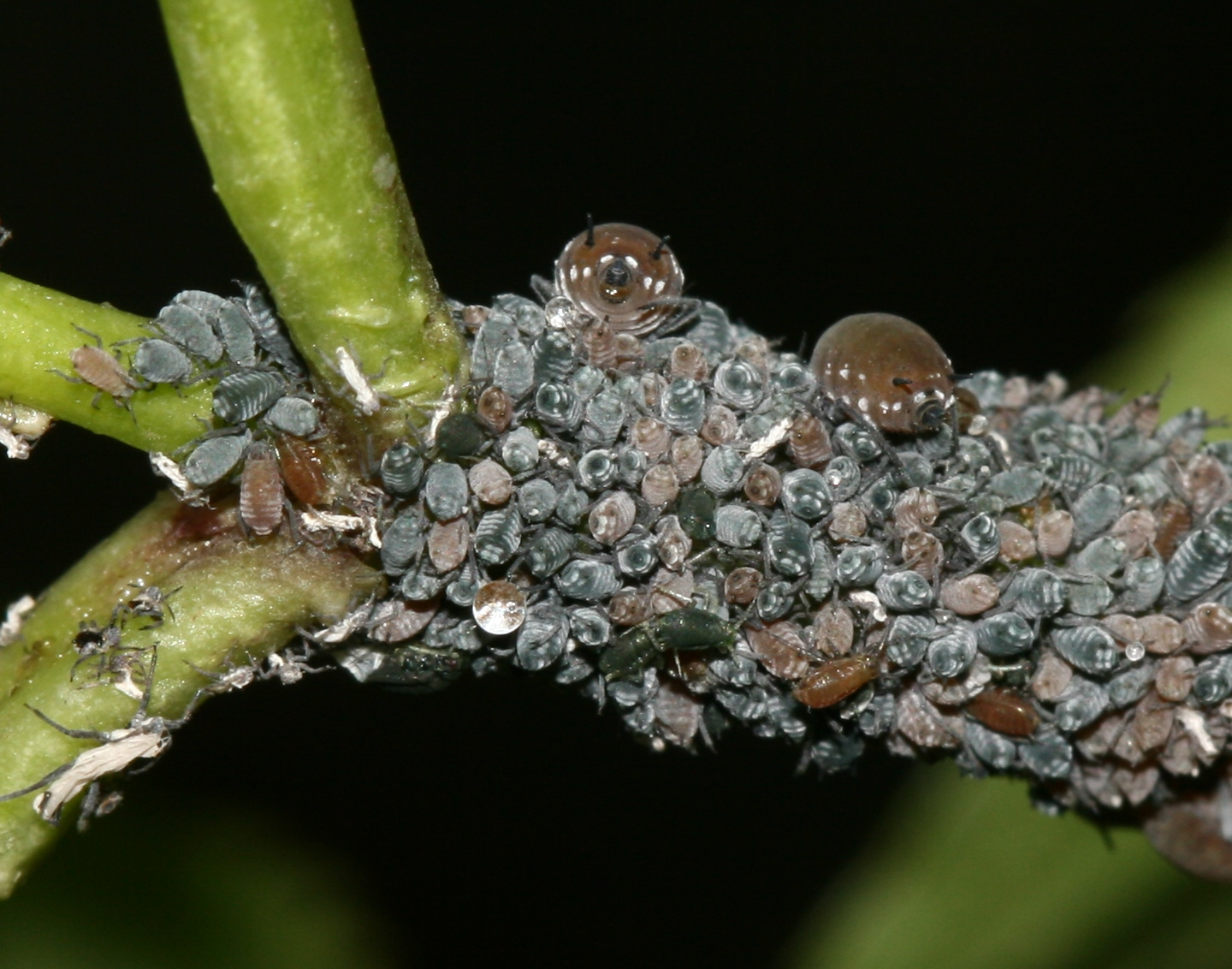 Aphid which feeds on Elder (Sambucus)